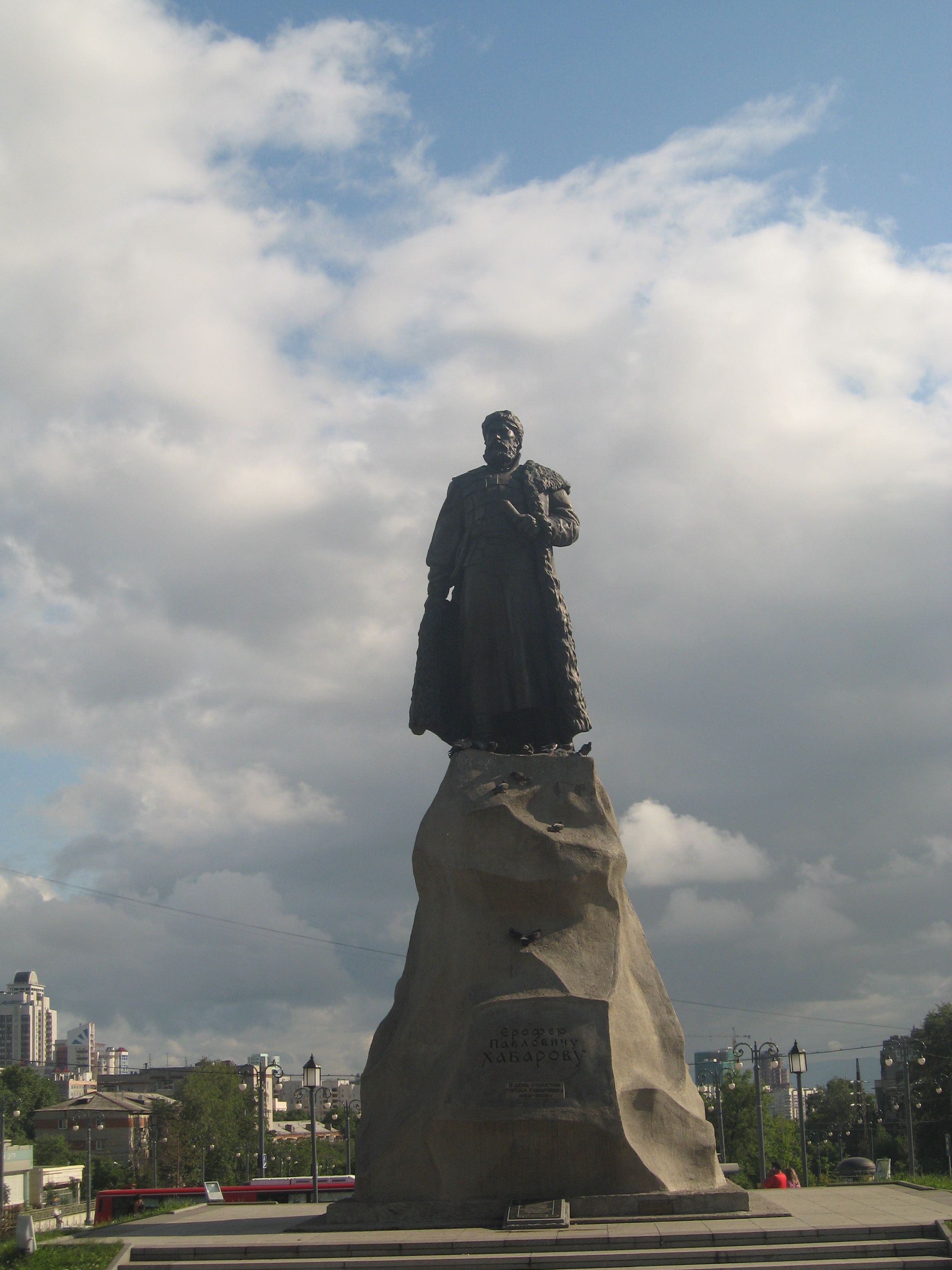 Khabarovsk, Privokzalnaya square. Monument to Erofey Khabarov, Far East's explorer